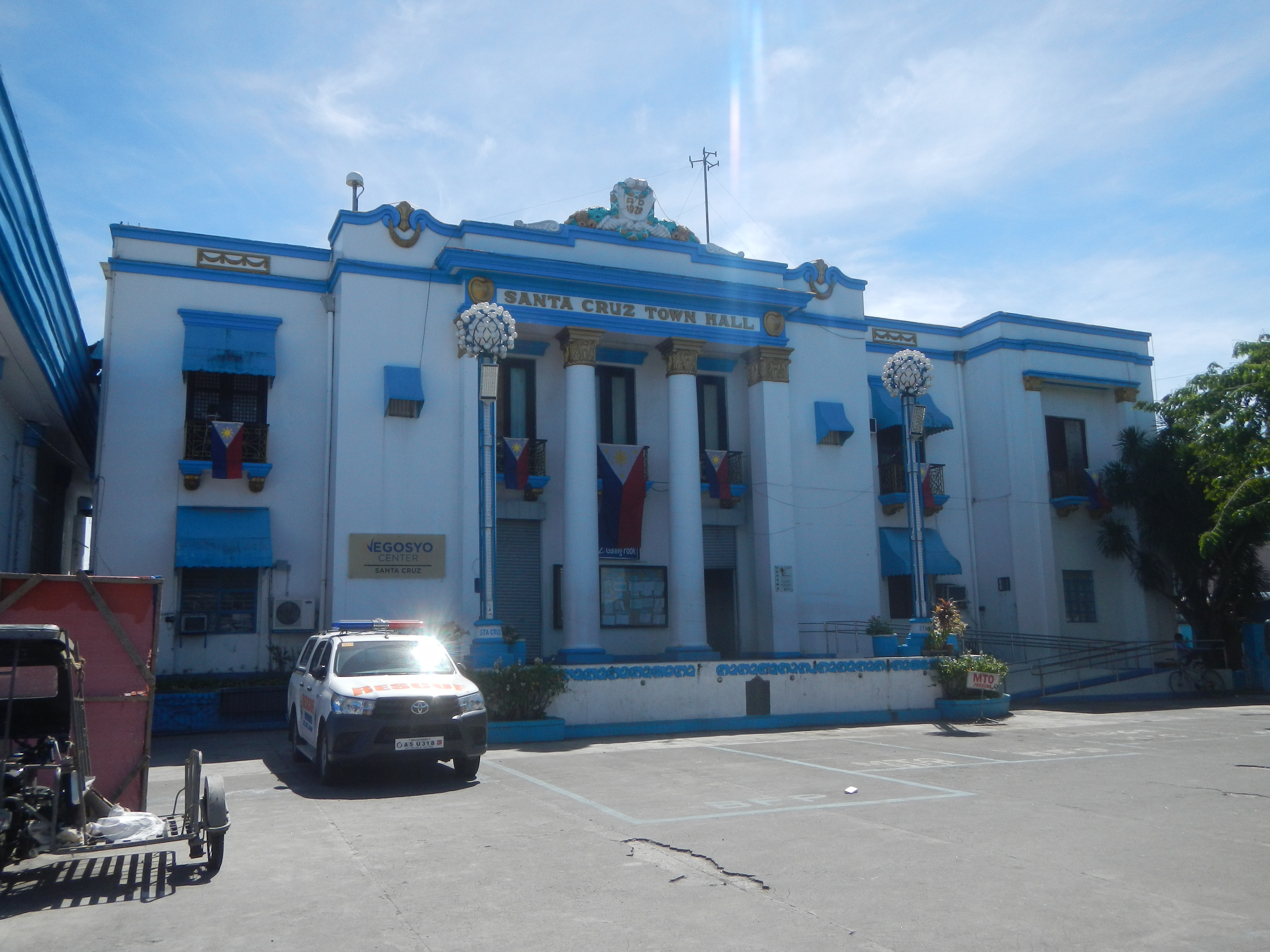 Santa Cruz Town Plaza Jose Rizal monuments in Santa Cruz, Laguna Agueda Kahabagan Escuelapia Building Santa Cruz Town Hall List of barangays in Laguna (province) Barangays Poblacion I, Poblacion II, Poblacion III, Poblacion IV & Poblacion V, Santa Cruz, Laguna 14.2786, 121.4173 San Pablo Norte, Santa Cruz, Laguna 14.2926, 121.4208 Santa Cruz, Laguna from or along the Calamba-Santa Cruz-Famy Junction Road which was declared a national road by the Chief Executive (Executive Order No. 71, series of 1936, as amended by Executive Order No. 311, series of 1940) Manila East Road interconnecting with Calamba–Pagsanjan Road Philippine highway network (Note: Judge Florentino Floro, the owner, to repeat, Donor Florentino Floro of all these photos hereby donate gratuitously, freely and unconditionally Judge Floro all these photos to and for Wikimedia Commons, exclusively, for public use of the public domain, and again without any condition whatsoever).